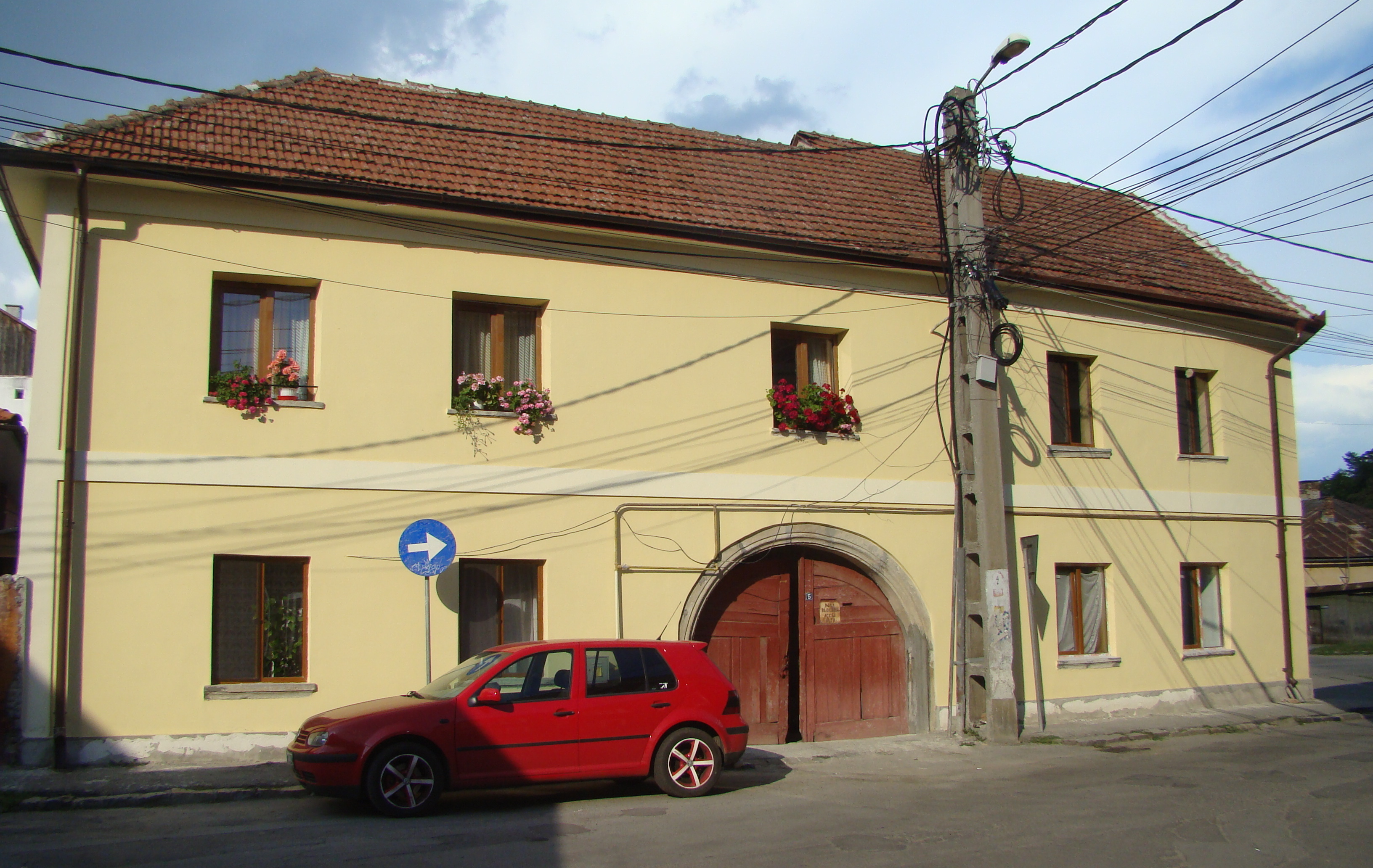 House, historic monument, in Bistrița, Piața Mică 5